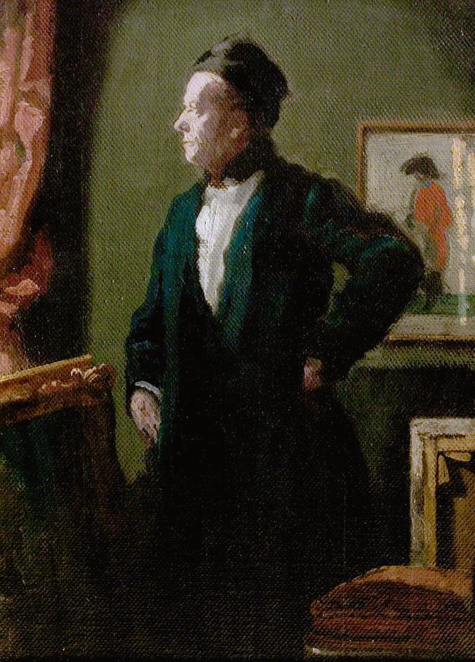 Self portrait as Scarron oil on canvas 40.6 x 30.5 cm